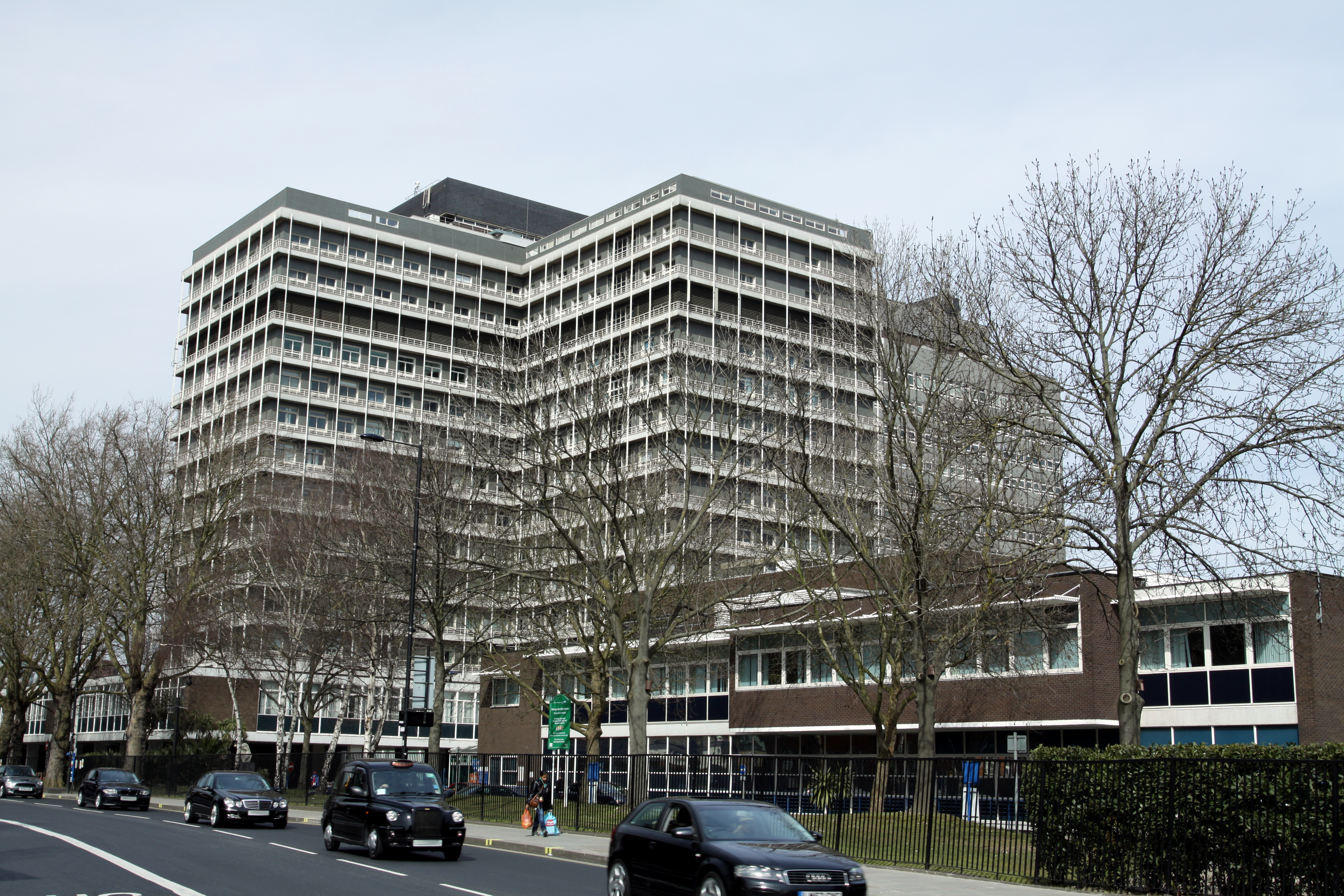 Charing Cross Hospital in the London Borough of Hammersmith and Fulham, London, Great Britain. The making of this file was supported by Wikimedia UK.